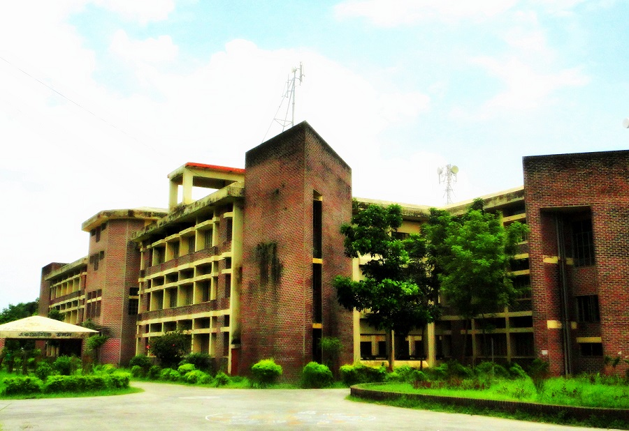 Administrative Building,HSTU,Dinajpur.